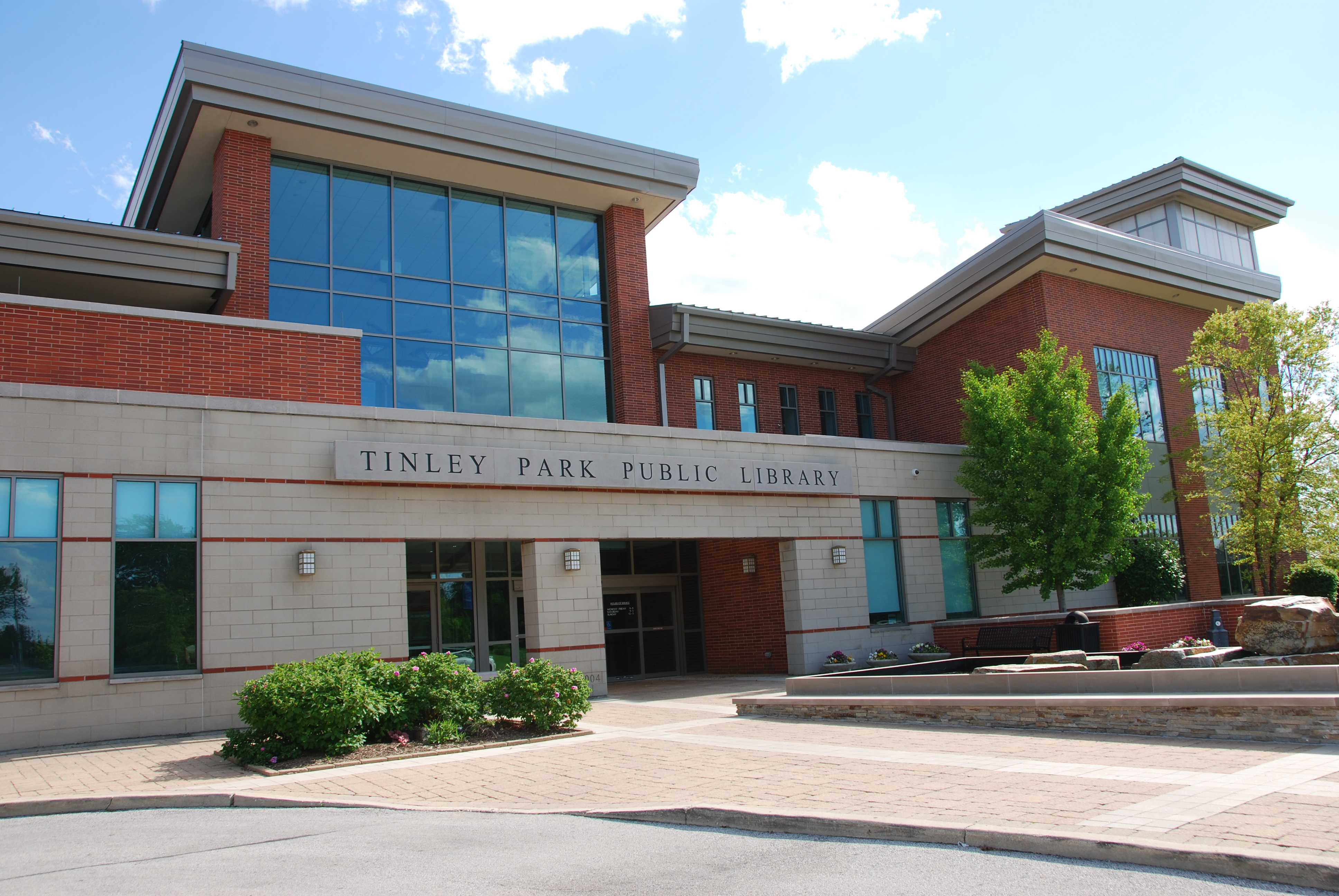 The front entrance of the Tinley Park (Ill.) Public Library.